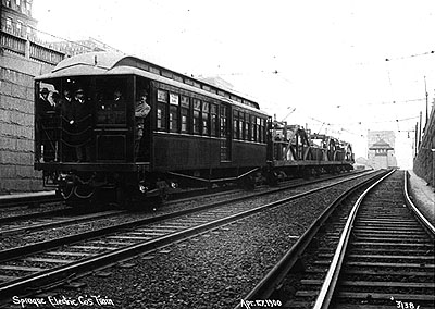 A test train on the inbound streetcar track of the Canal Street Incline in 1900